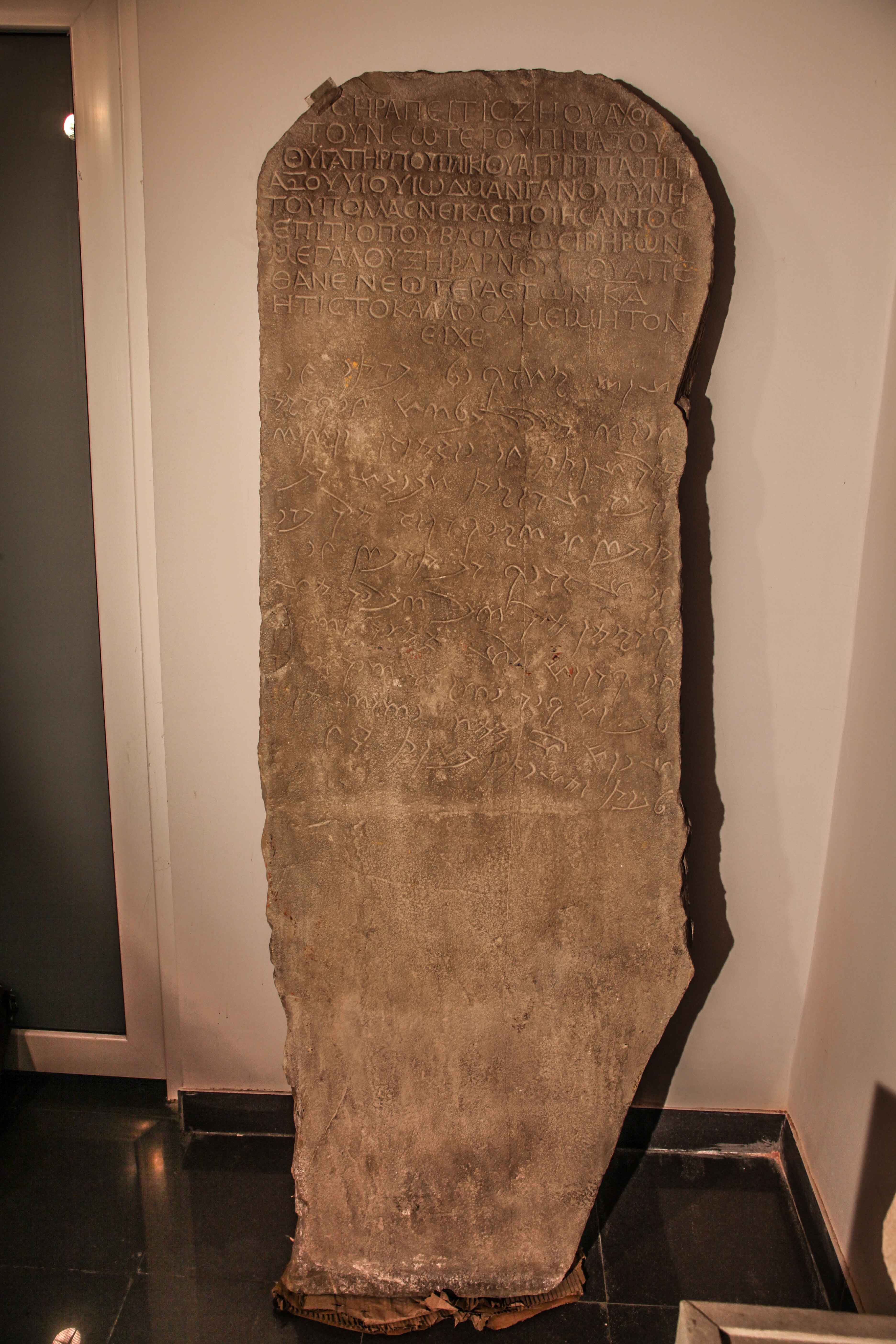 Tomb stela of basalt, with bilingual inscription in Aramaic and Greek excavated from Armazi, the ancient capital of Iberia (Georgia). Preserved in Simon Janashia Museum of Georgia.